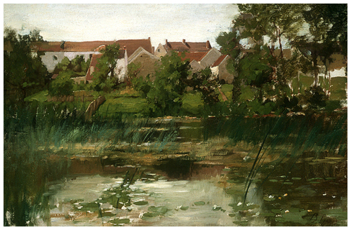 Landscape: Grez (ca.1882) by American landscape artist William Bliss Baker (1859-1886). The painting is currently held as part of the Horace C. Henry Collection at the Henry Art Gallery at the University of Washington.